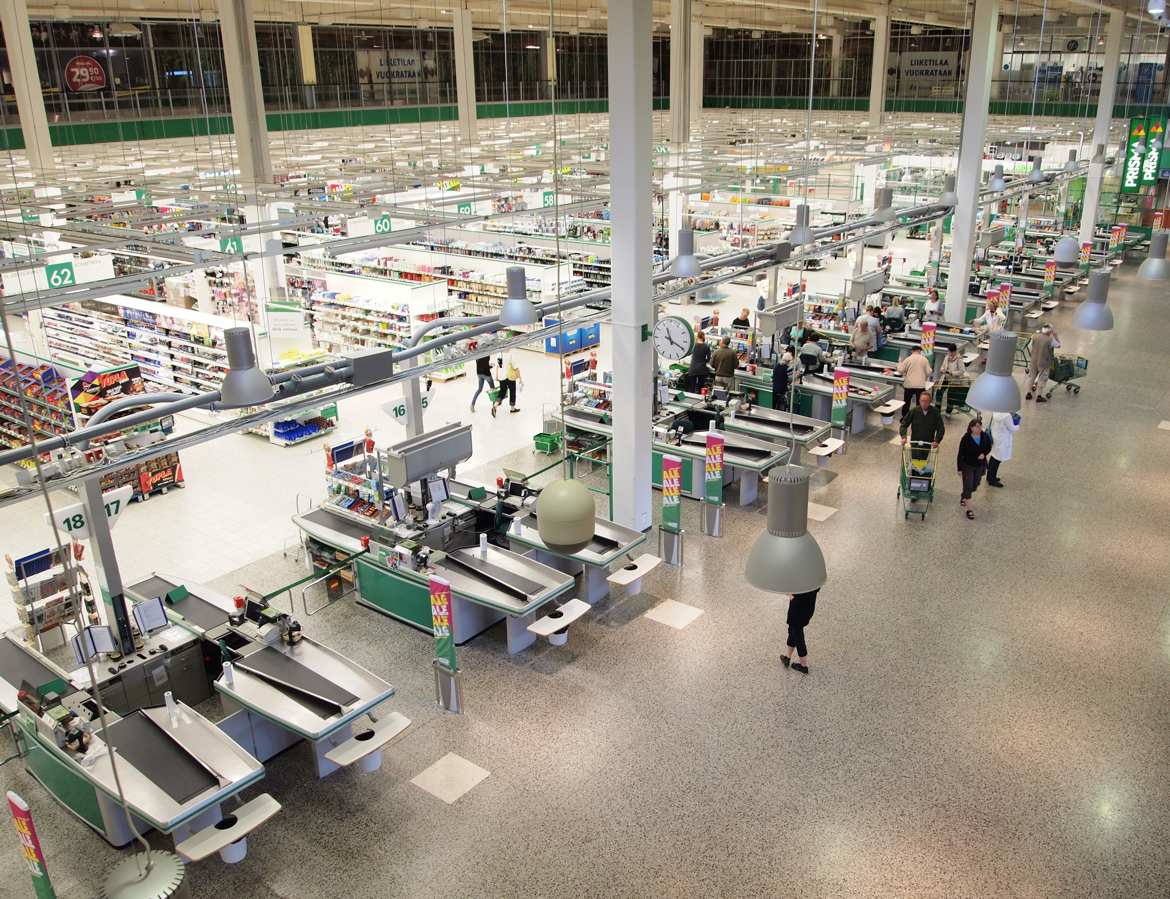 Shopping store Prisma Koivistonkylä in Tampere. This photograph was taken with a Olympus E-PL1.